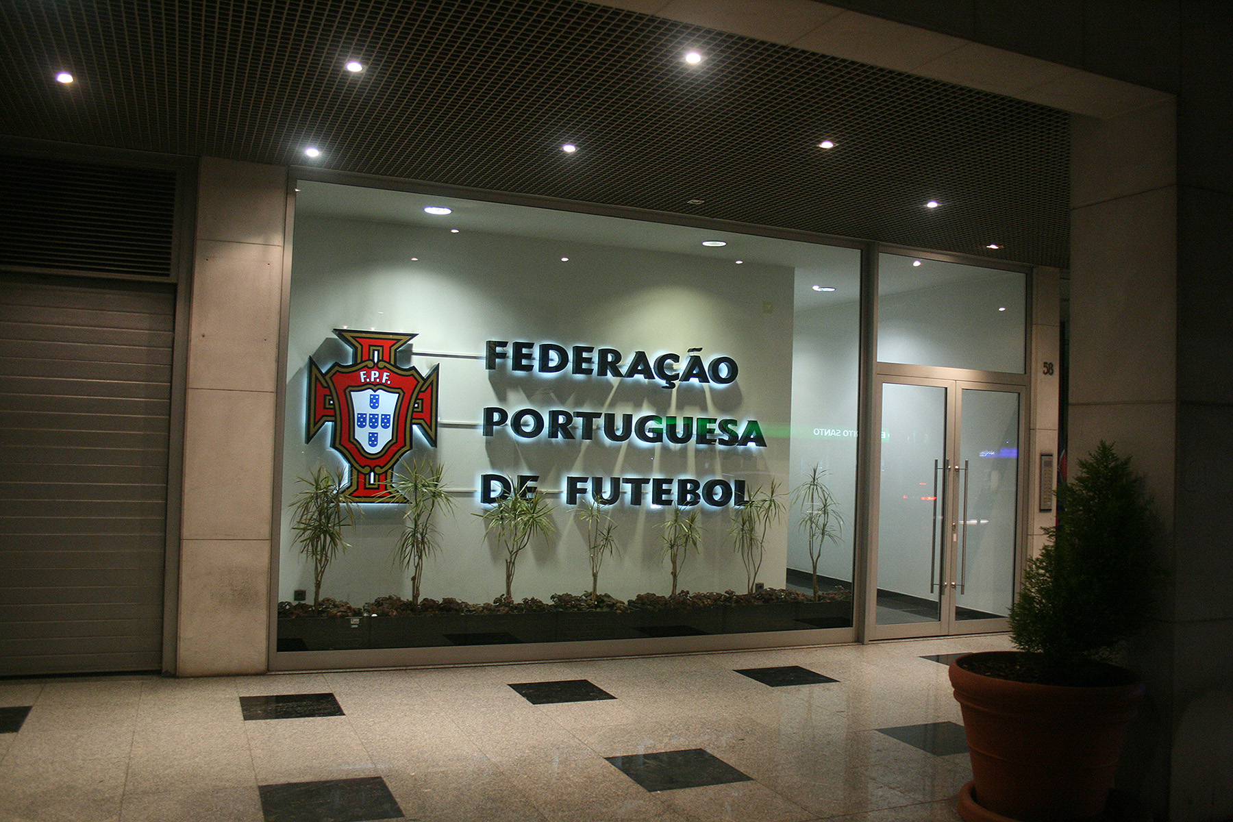 FPF office by night.